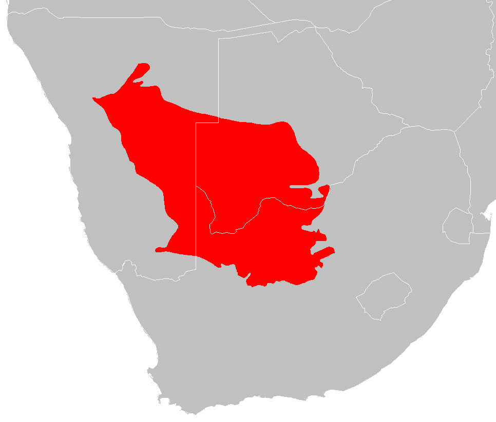 The Kalahari xeric savanna ecoregion